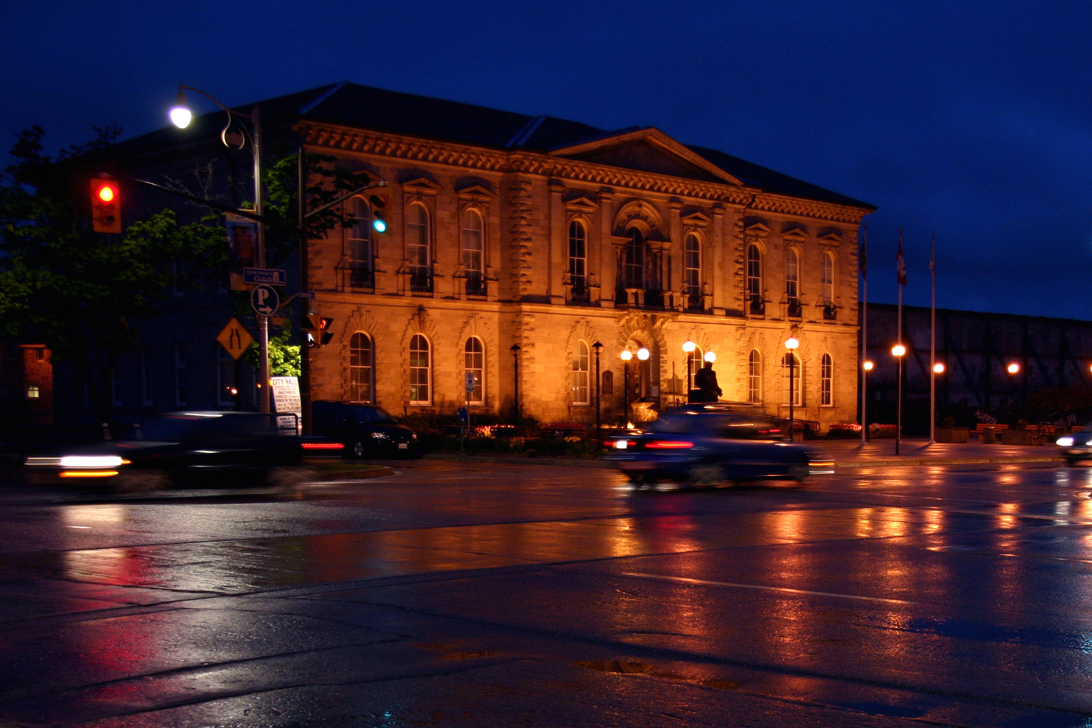 Guelph City Hall at Night, Guelph, ON. Guelph City Hall. Guelph city hall at night. At night in 2006.